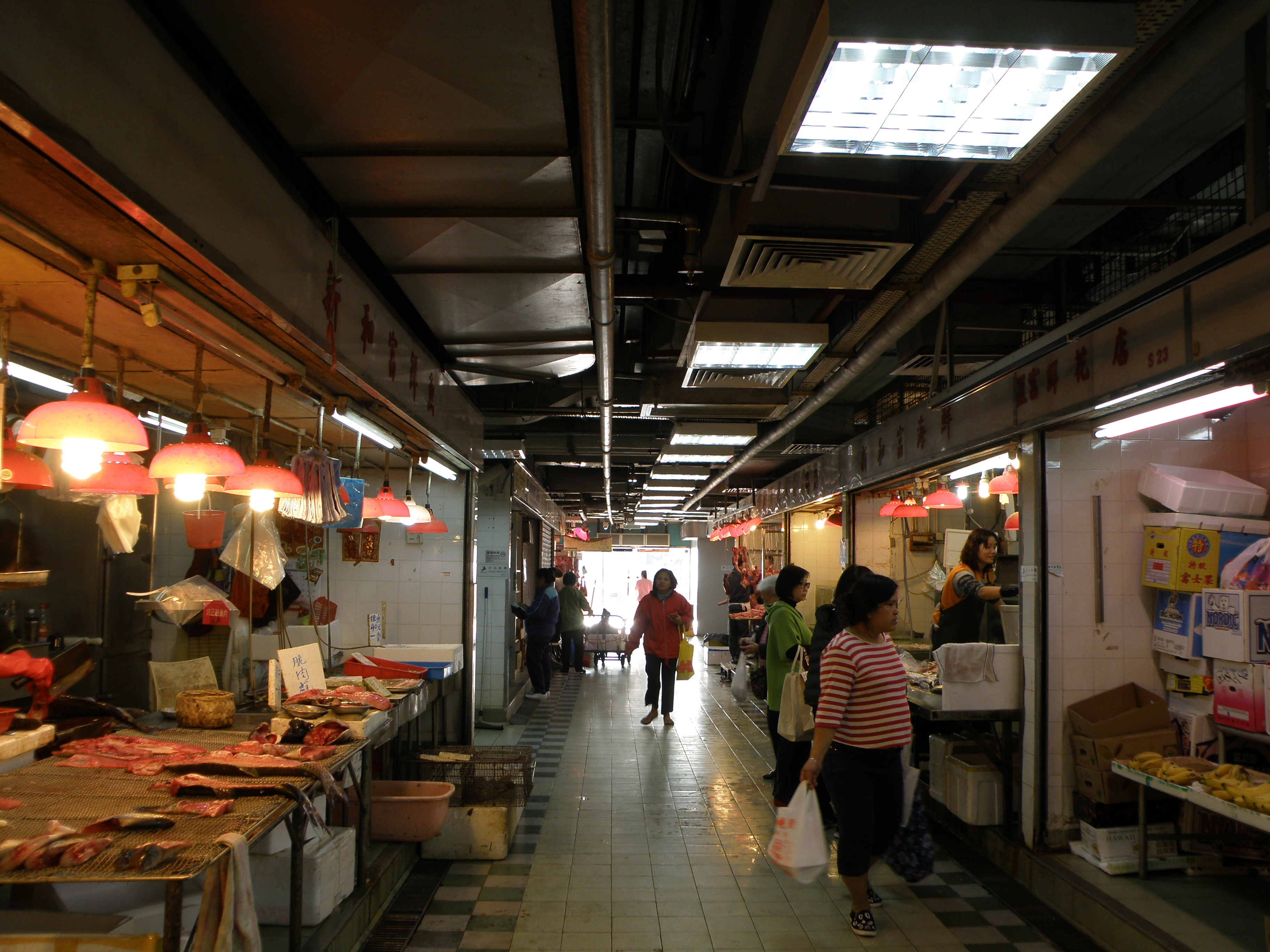 Chi Fu Market in Pok Fu Lam, Hong Kong.